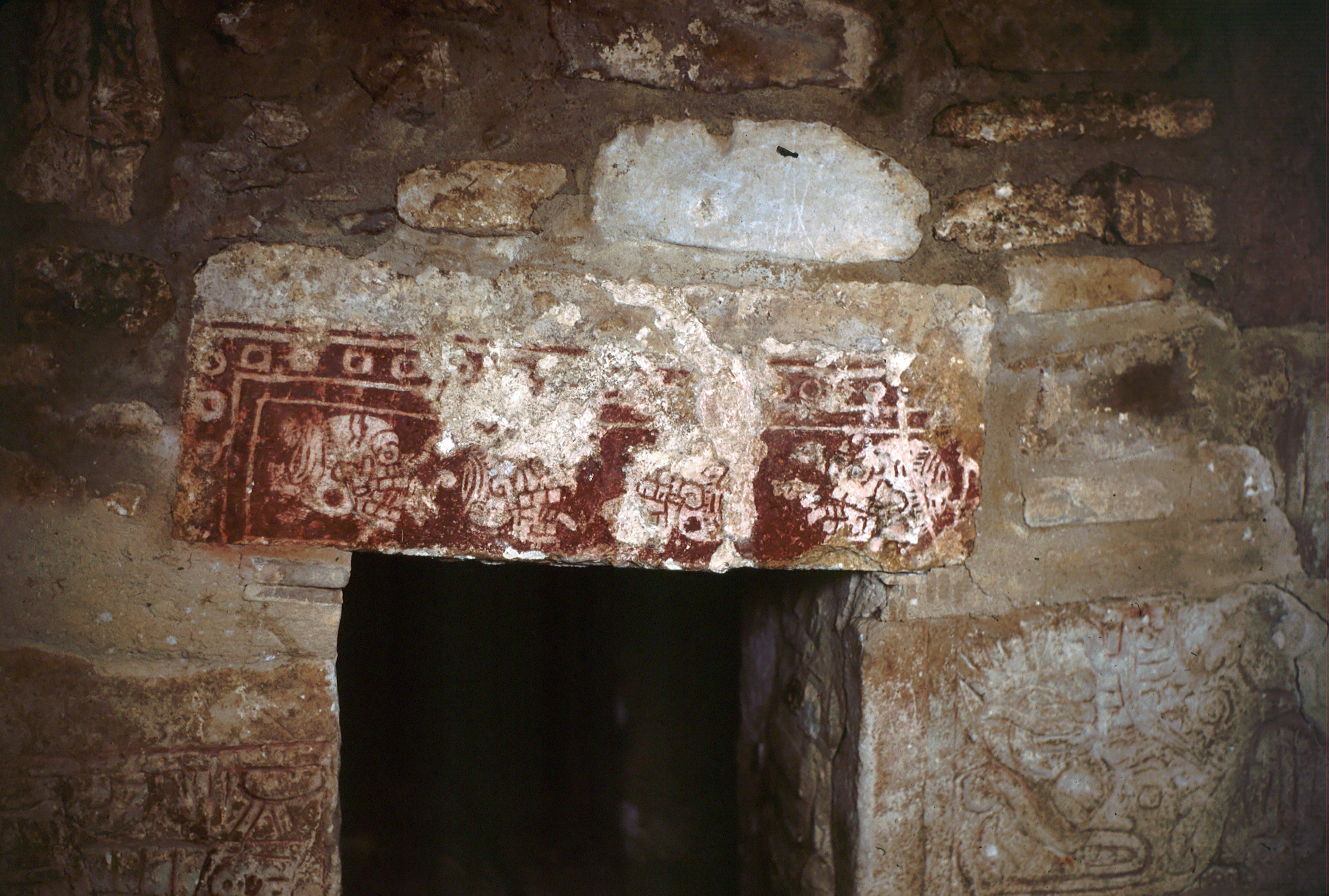 Huitzo, Oaxaca, Mexico: Tomb